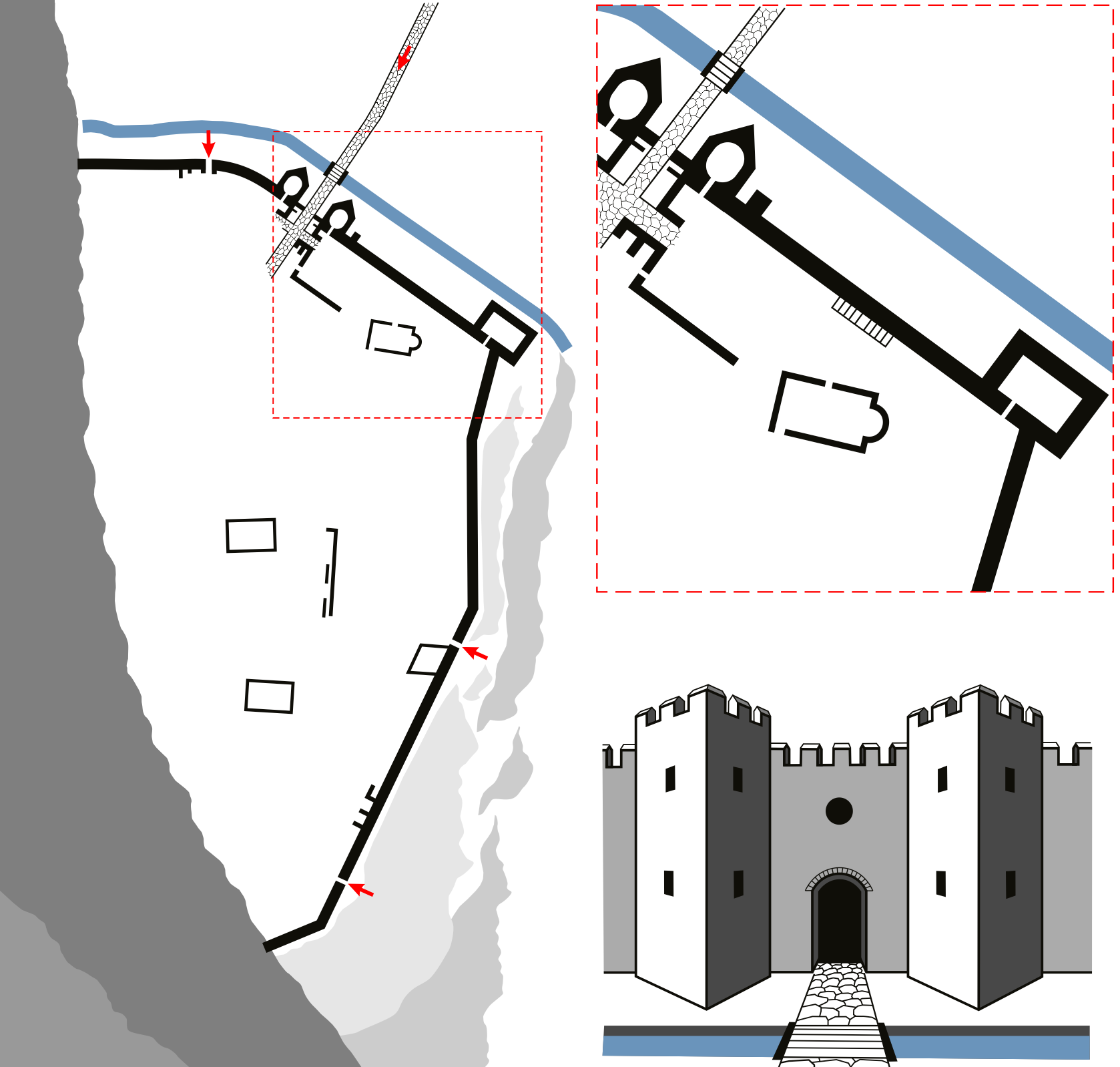 Plan of the medieval Bulgarian fortress Madara Based on: [1]